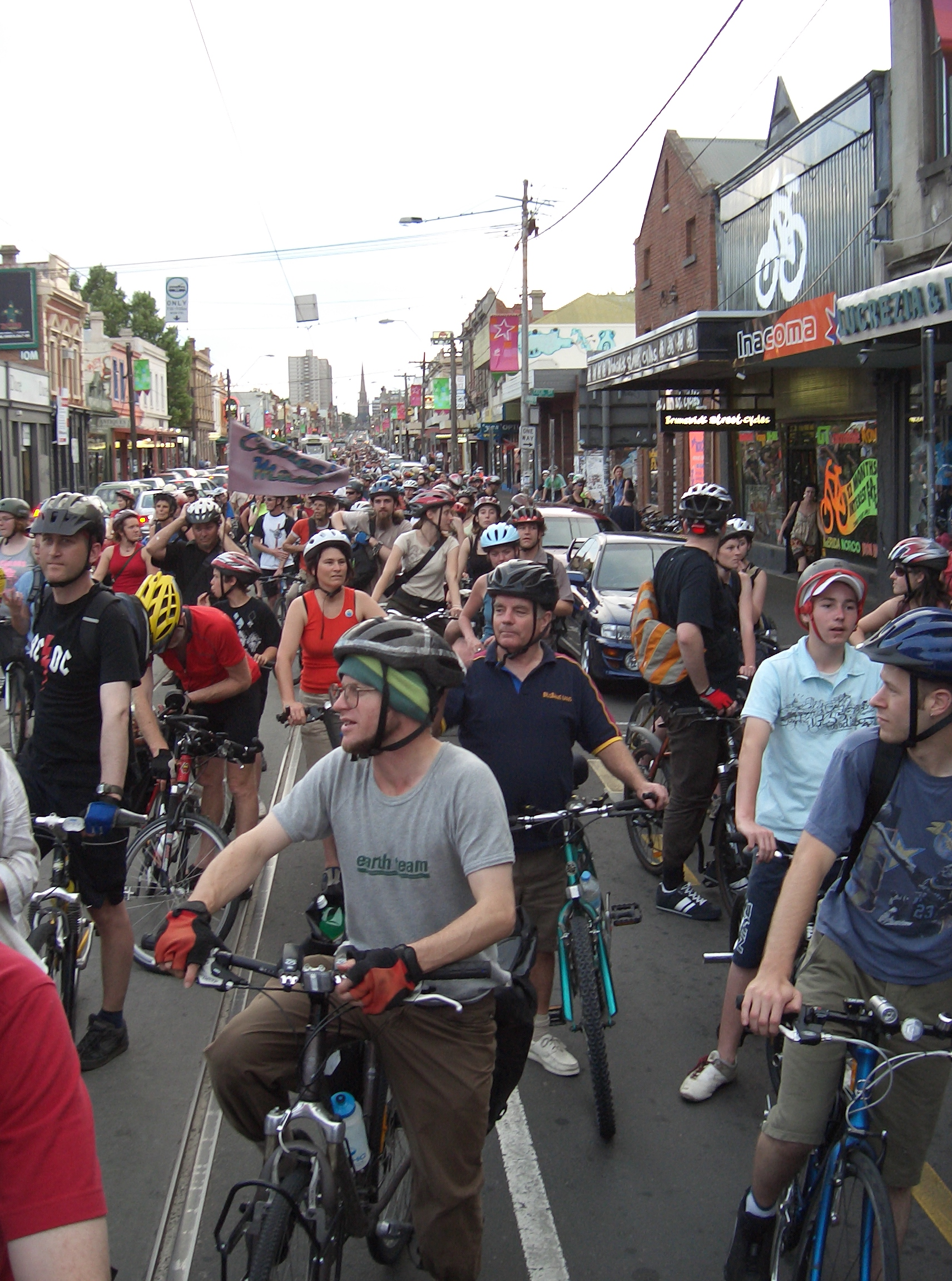 The 10th anniversary ride of Critical Mass' Melbourne branch saw a reported 1400 cyclists take part. Here, they crowd Brunswick Street, Fitzroy as far as the eye can see.